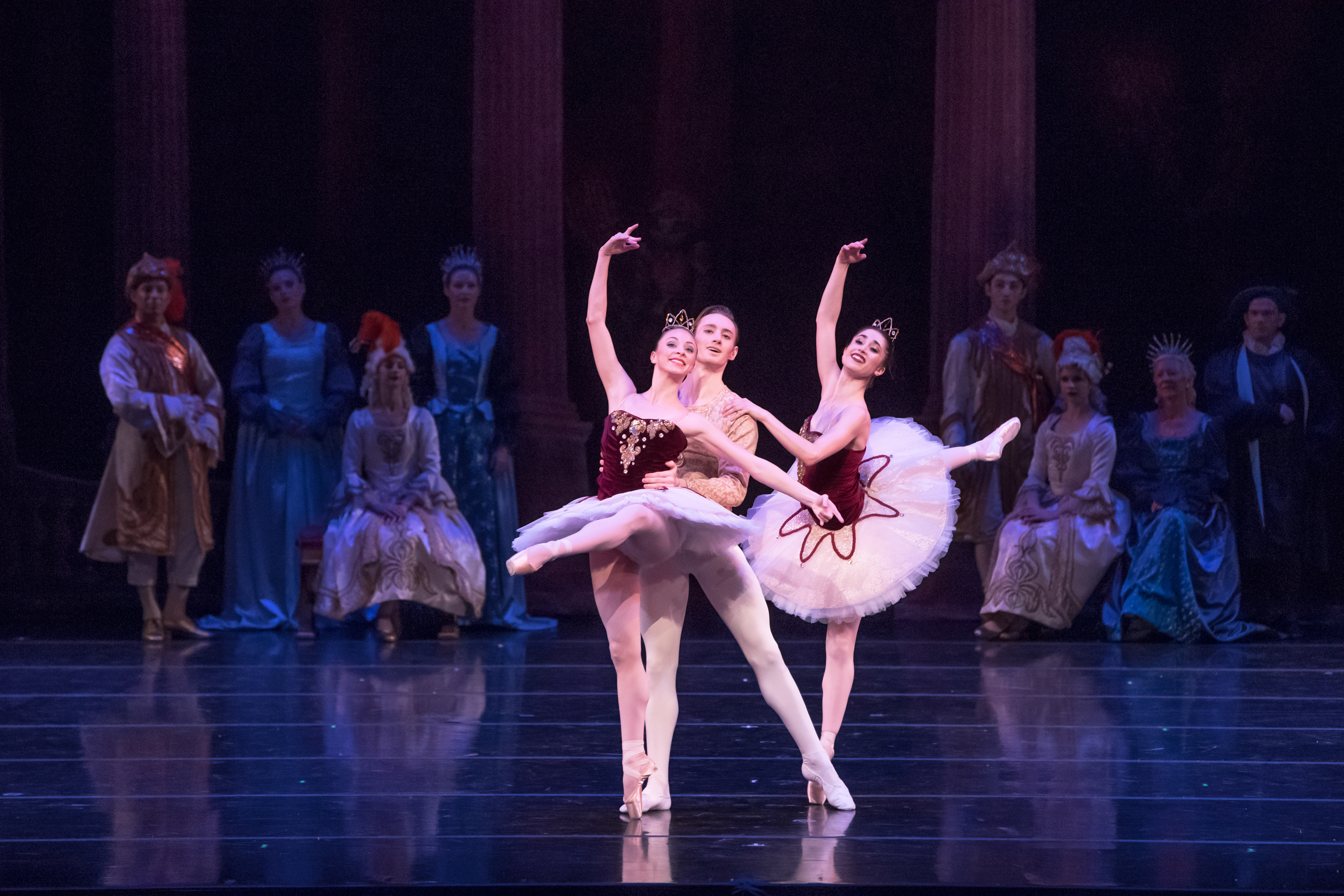 Dancers Lilliana Hagerman, Amanda DeVenuta, and James Kirby Rogers. Photography: Brett Pruitt & East Market Studios.